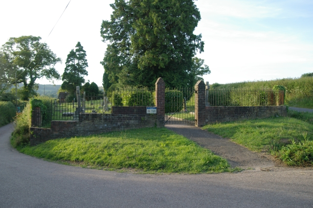 Sidbury cemetery. Sidbury cemetery, which lies outside of the village at its southern end.